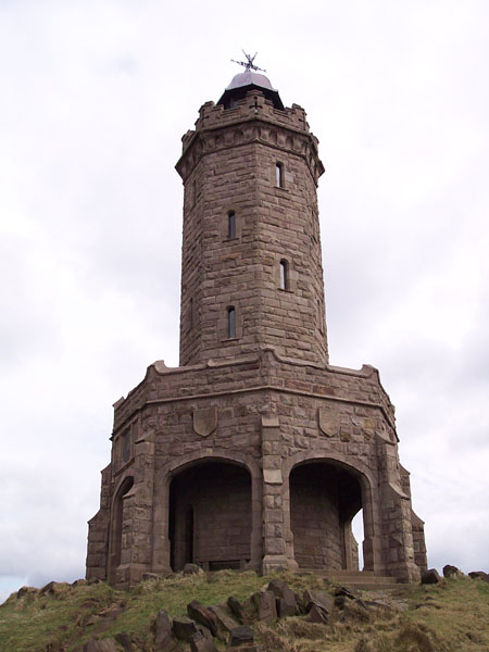 The Jubilee Tower at grid reference SD678215 above Darwen, Lancashire, England.